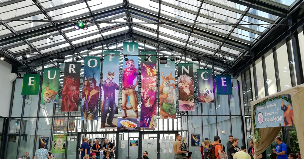 In the hotel ESTREL entrance, the welcoming decoration of the Eurofurence 2018